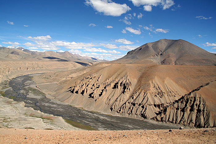 Natural rock and sand formations.Shot by Sundeep Gajjar in The Great Indian Roadtrip